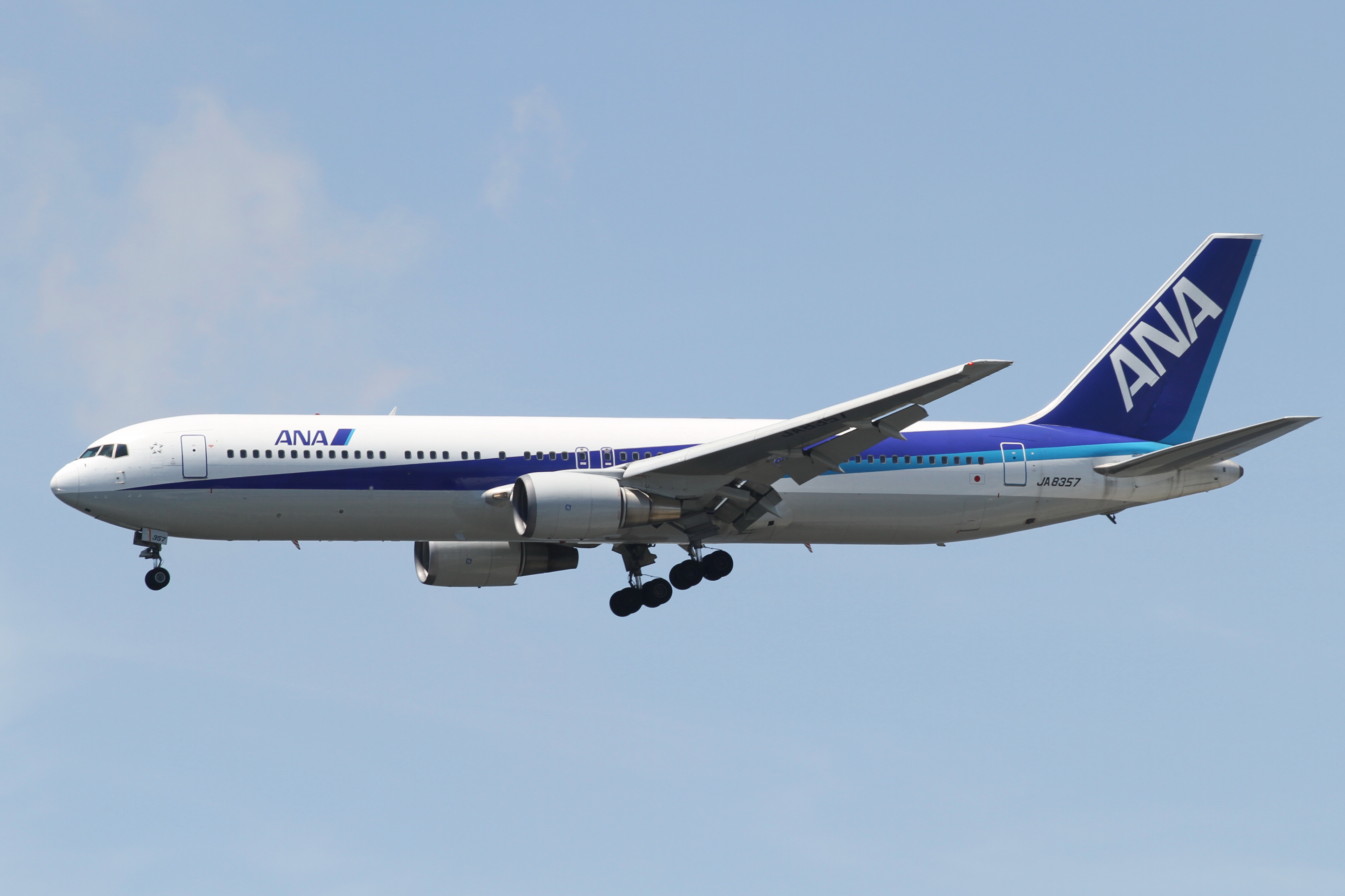 Tokyo International Airport, Boeing 767-381, c/n:25293, All Nippon Airways